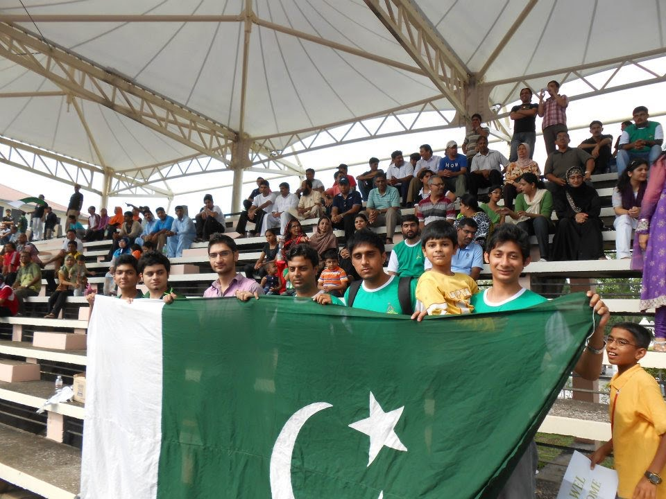 Sultan Azlan Shah Hockey, Ipoh